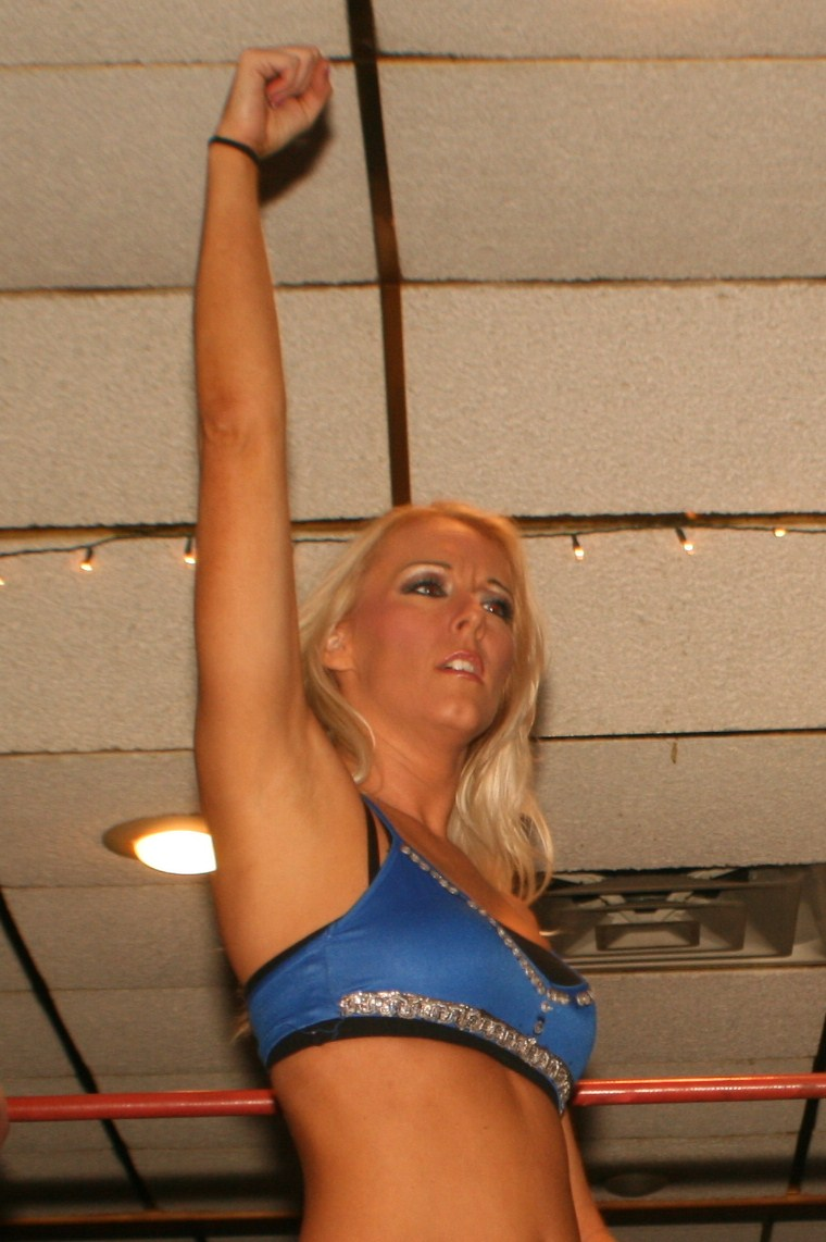 Amber O'Neal at a WSU show on April 3, 2010.